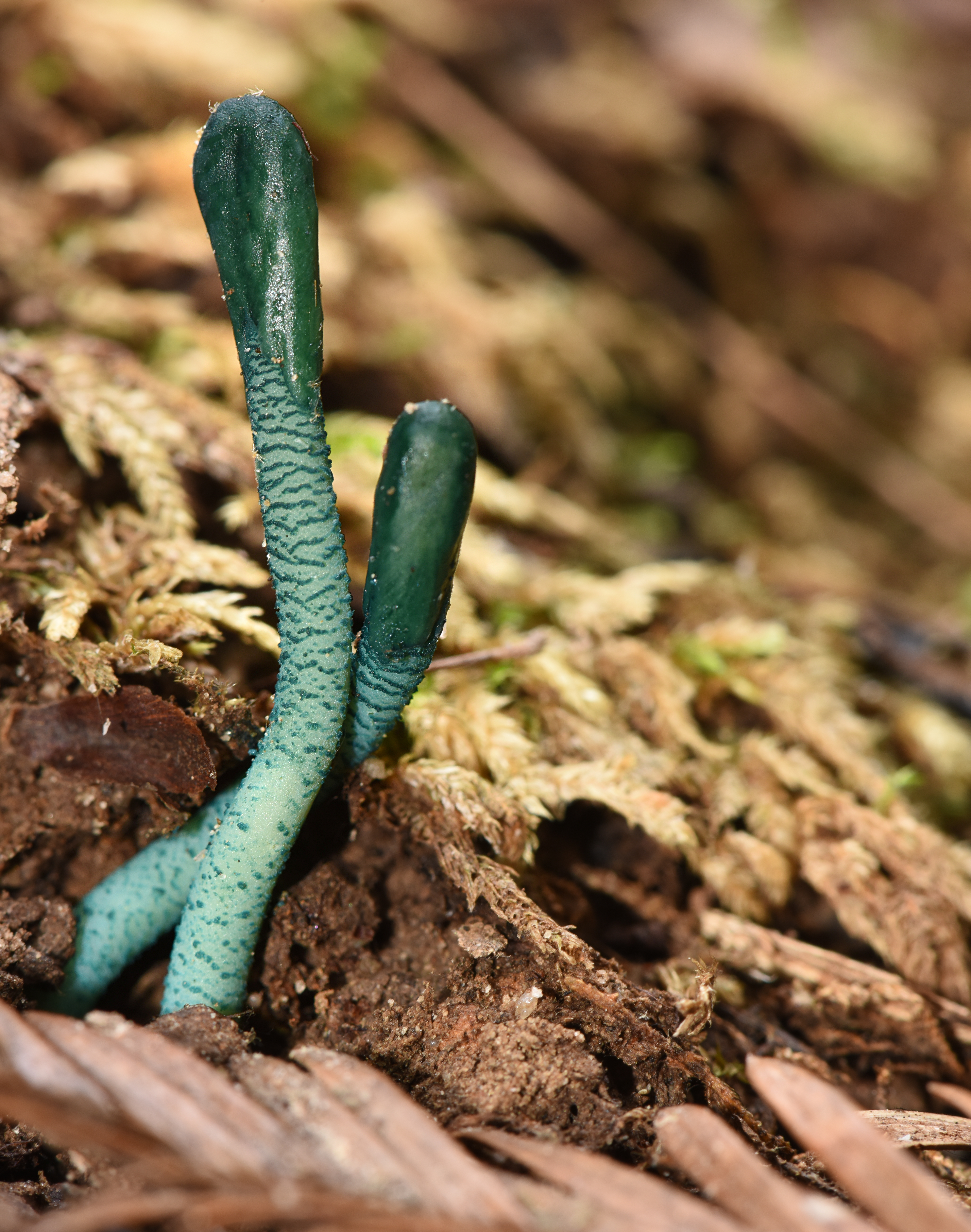 Microglossum viride from the Soquel Demonstration Forest. January, 2015.